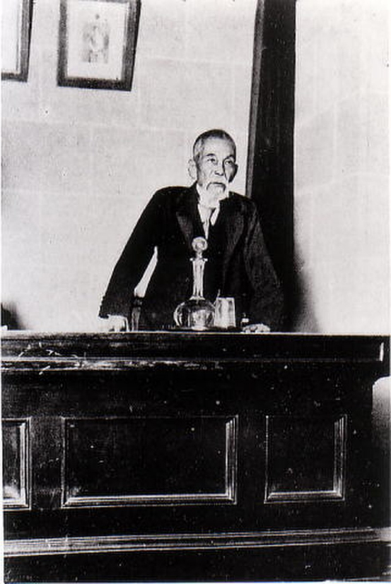 Inukai Tsuyoshi gives a speech. He was a Japanese politician and Prime Minister of Japan (1855–1932)